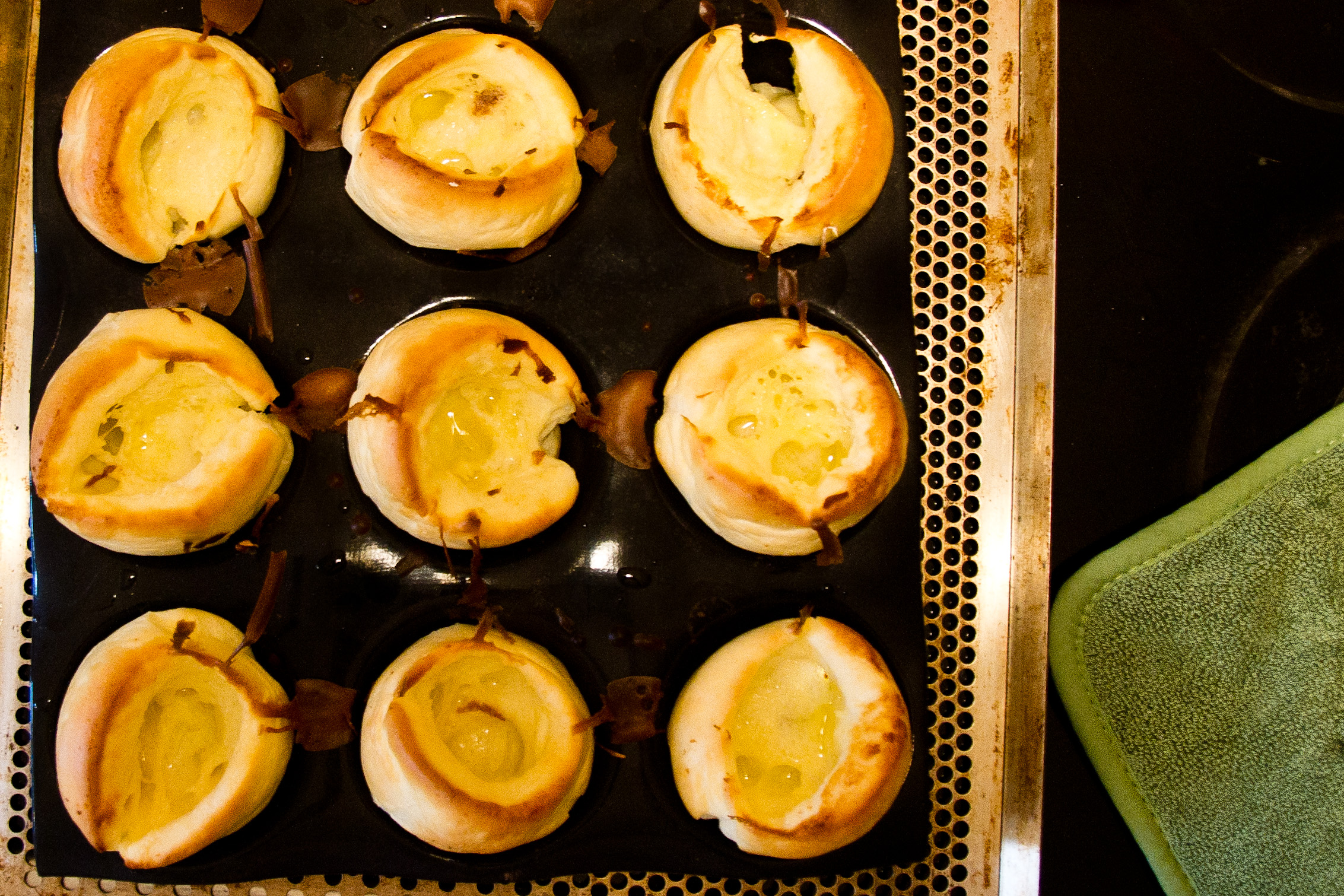 Dutch babies (also known as German pancakes, Bismarcks, or Dutch puffs) prepared in a home kitchen.